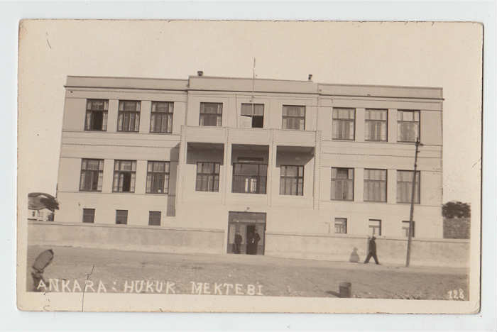 Ankara Law School second building